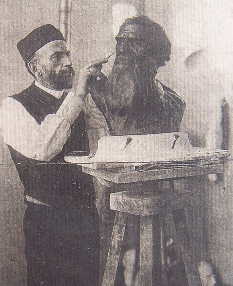 Lev L. Tolstoy sculpts a bust of his father